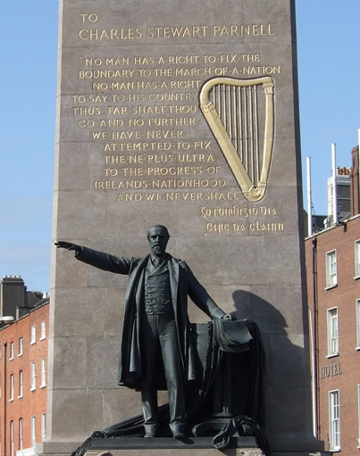 Memorial to Charles Stewart Parnell on the north end of O'Connell Street in Dublin sculpted by Augustus Saint-Gaudens. From 1885 Reads: To Charles Stewart Parnell "No man has a right to fix the boundary to the march of a nation. No man has a right to say to his country thus far shalt thou go and no further. We have never attempted to fix the ne plus ultra to the progress of Ireland's nationhood and we never shall."